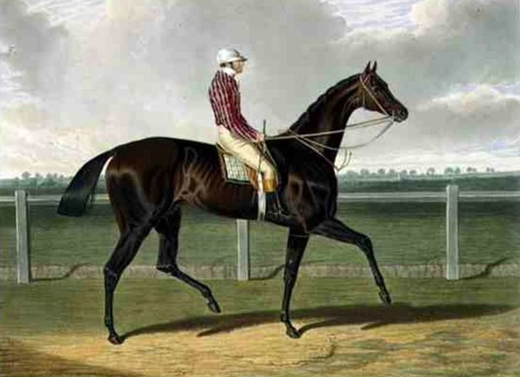 Painting of the British racehorse Chorister c. 1831 by John Frederick Herring, Sr. (1795-1865). Artist dead for 147 years.